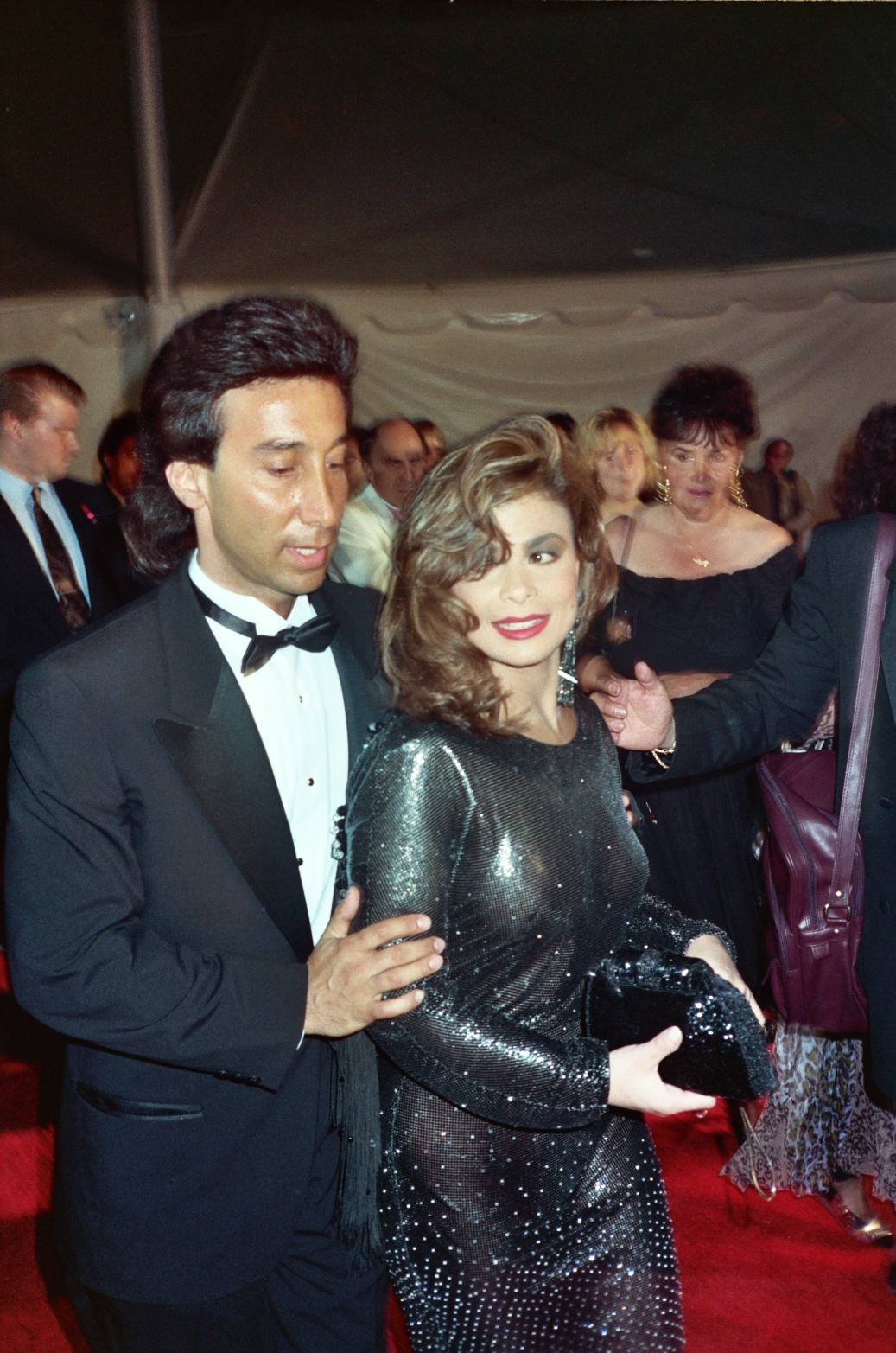 1990 Academy Awards NOTE: Permission granted to copy, publish, broadcast or post any of my photos, but please credit "photo by Alan Light" if you can. Thanks. Scanned from the original 35MM film negative.